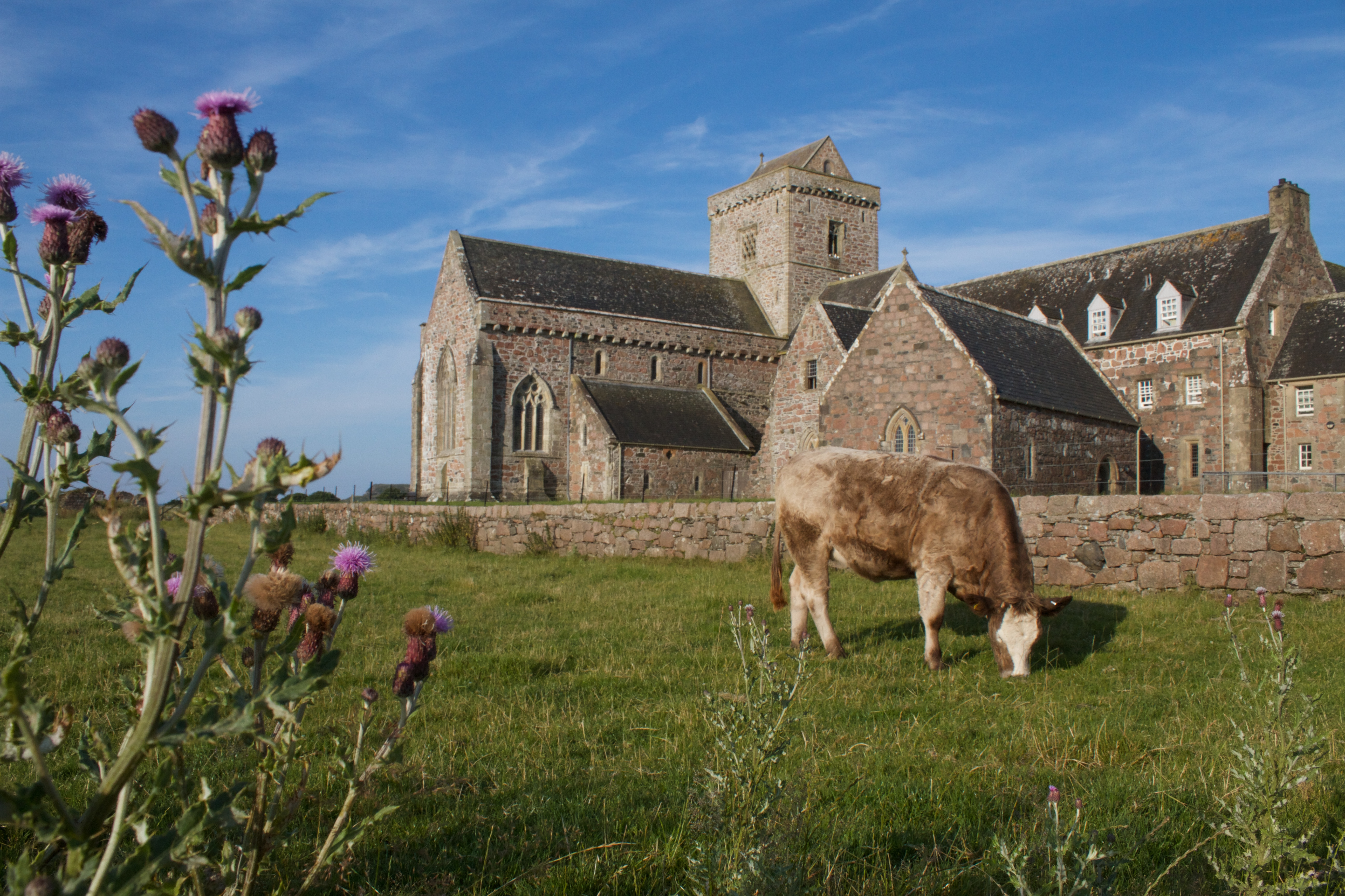 Cow in front of the Abbey, Iona, with thistle